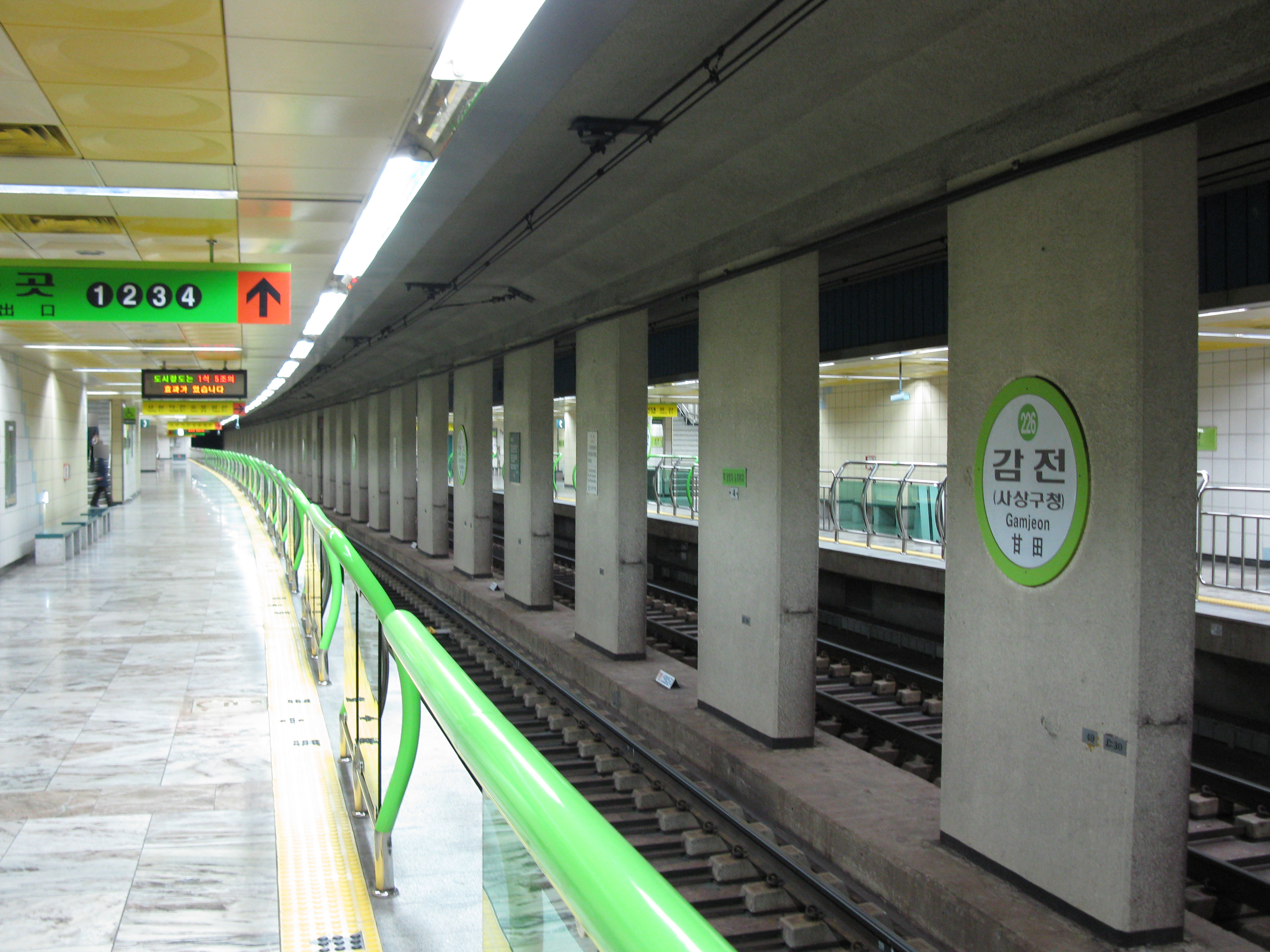 Gamjeon Station platform (Busan Subway Line 2)